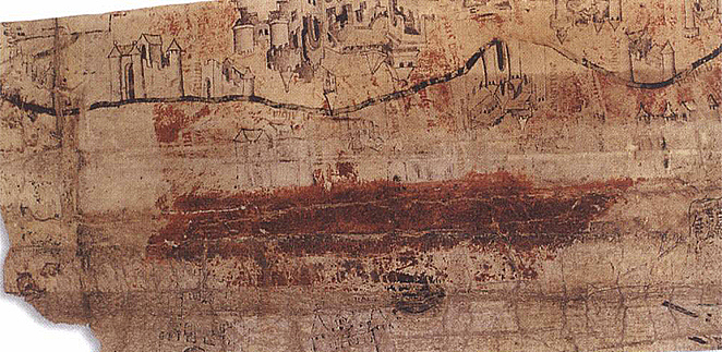 Portion of map, which depicts the oldest known image of Lithuanian capital Vilnius (14th century),[1] the “Bohemian road-map”. A parchment fragment size 36,5 x 10,5 cm.